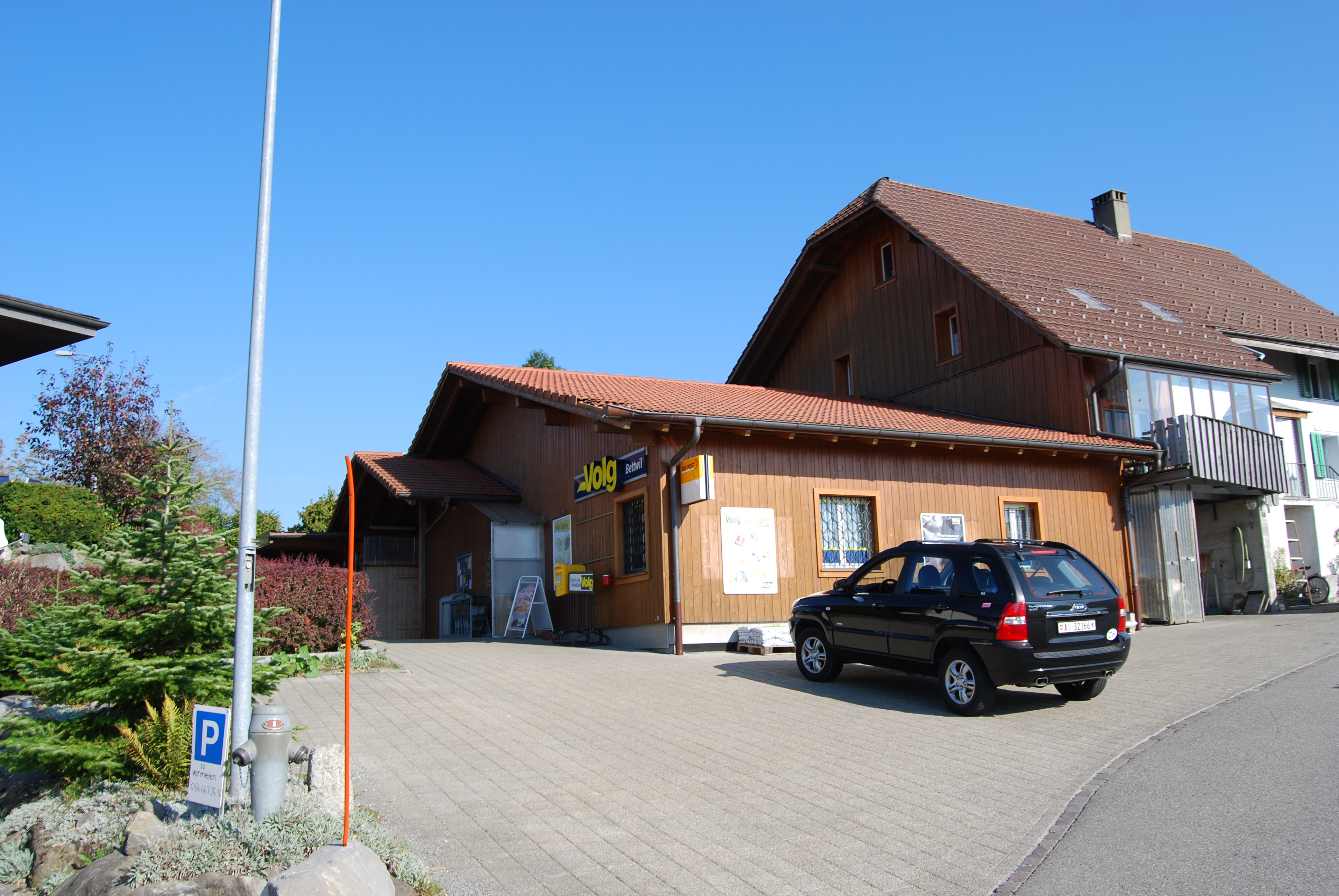 Volg-Supermarket and post office of Bettwil, canton of Aargau, SwitzerlandEsperanto: Volg-Supermerkato kaj poŝtoficejo de Bettwil, Kantono Argovio, Svislando